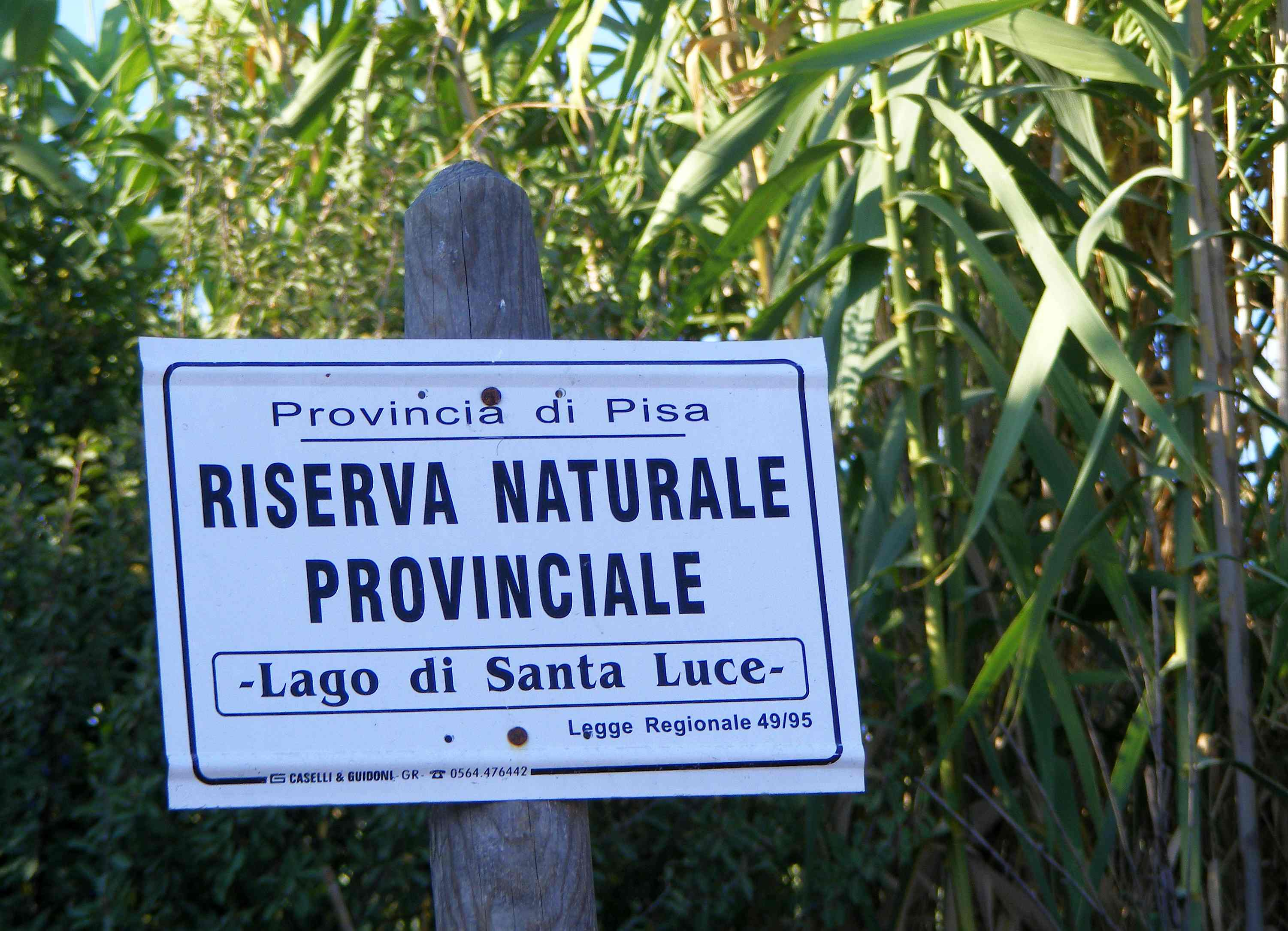 Santa Luce lake wildlife reserve (PI, Italy)